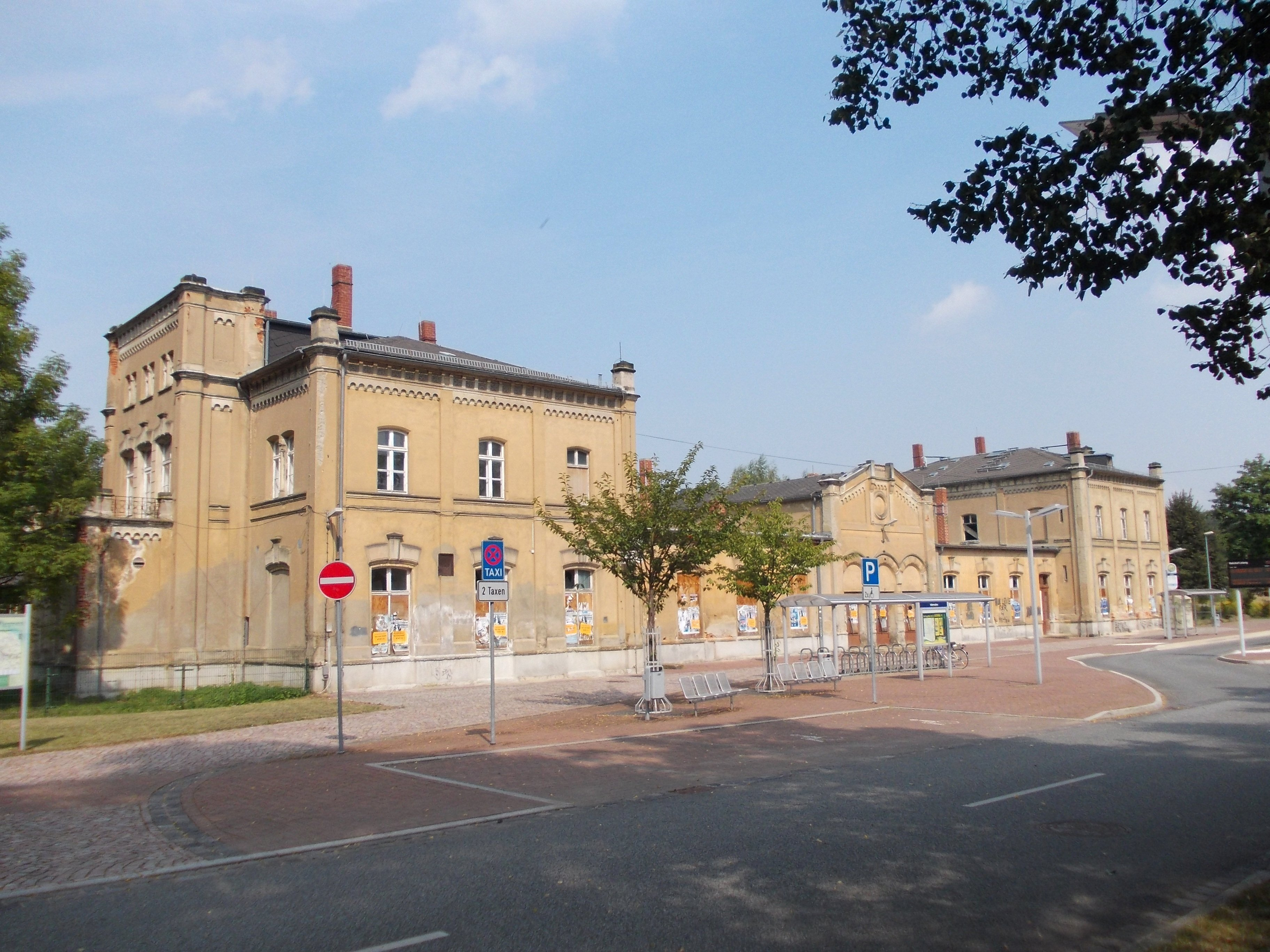 Leisnig train station (Mittelsachsen district, Saxony)